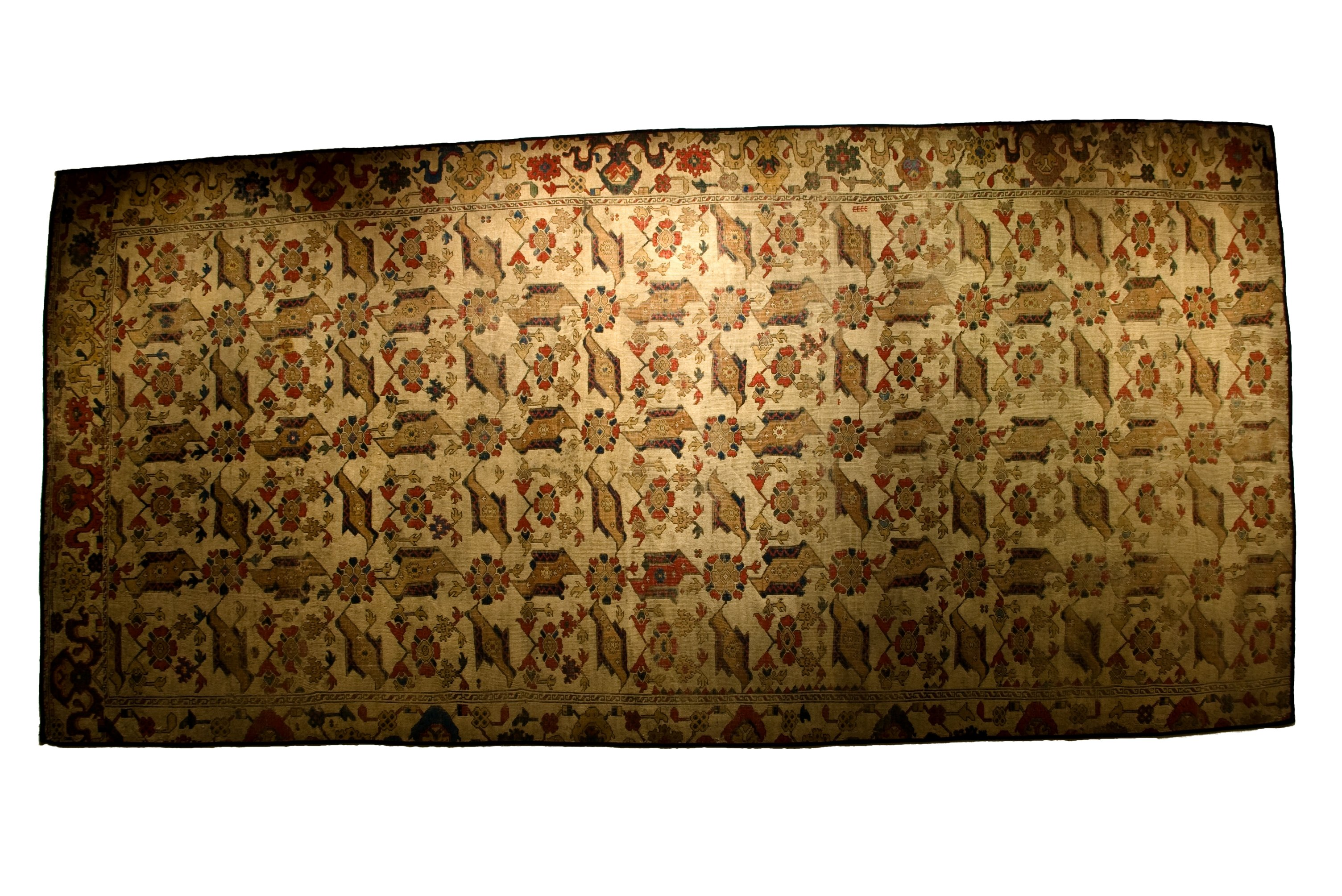 Bird figured carpet from Mevlana lodge, Konya. Usak. 16th century